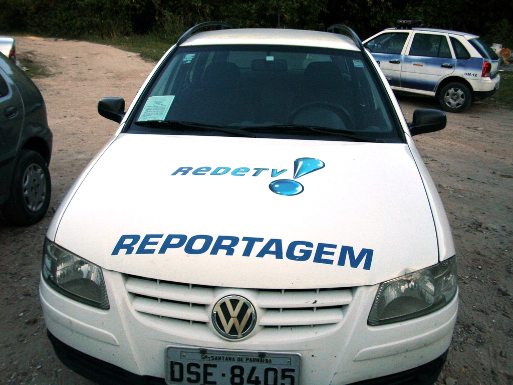 Reporter automobile (VW Parati Mk4) of Rede TV! Recife.